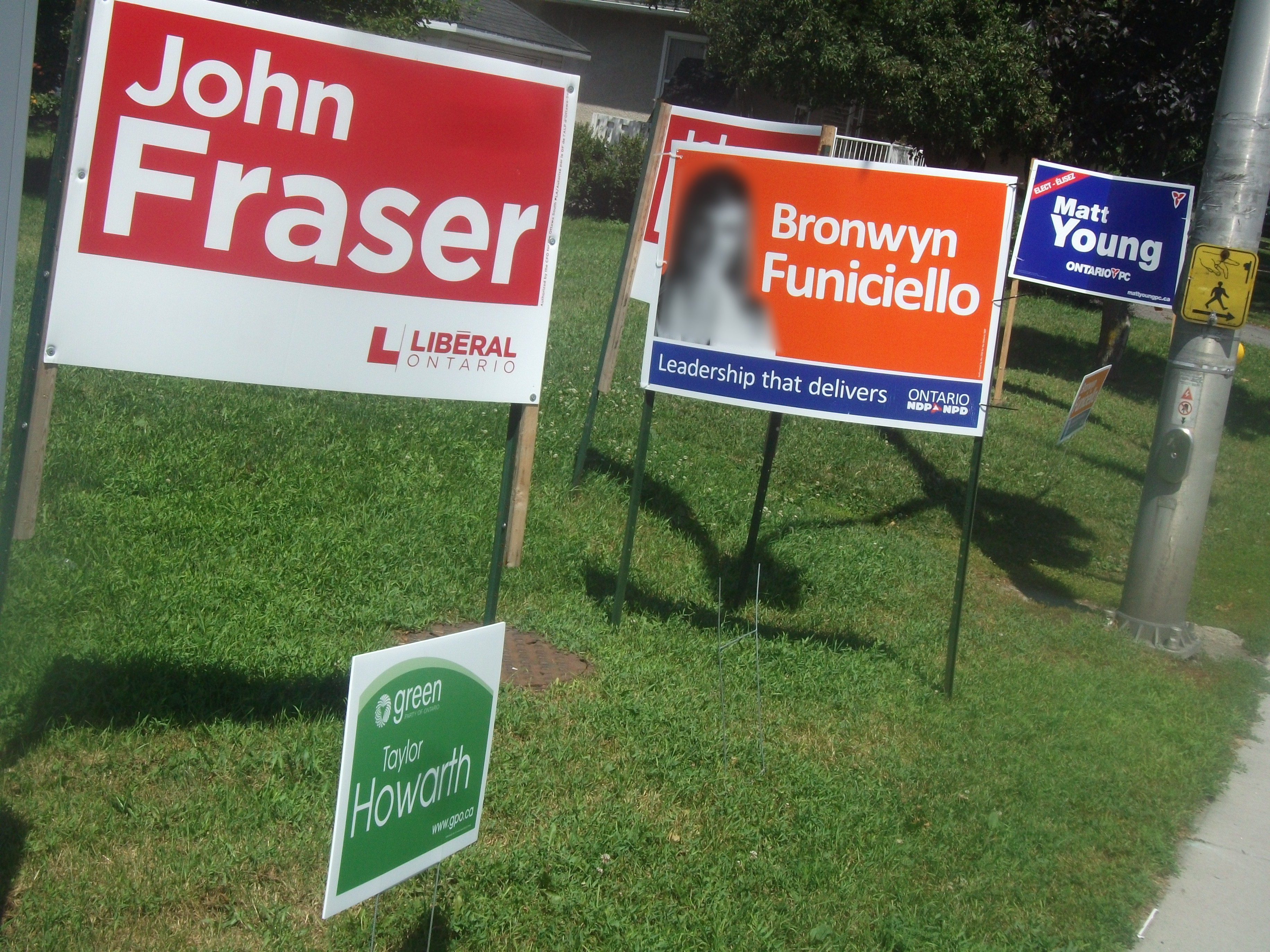 By-election signs for the 4 main candidates in the Ottawa South August 1, 2013 provincial by-election.